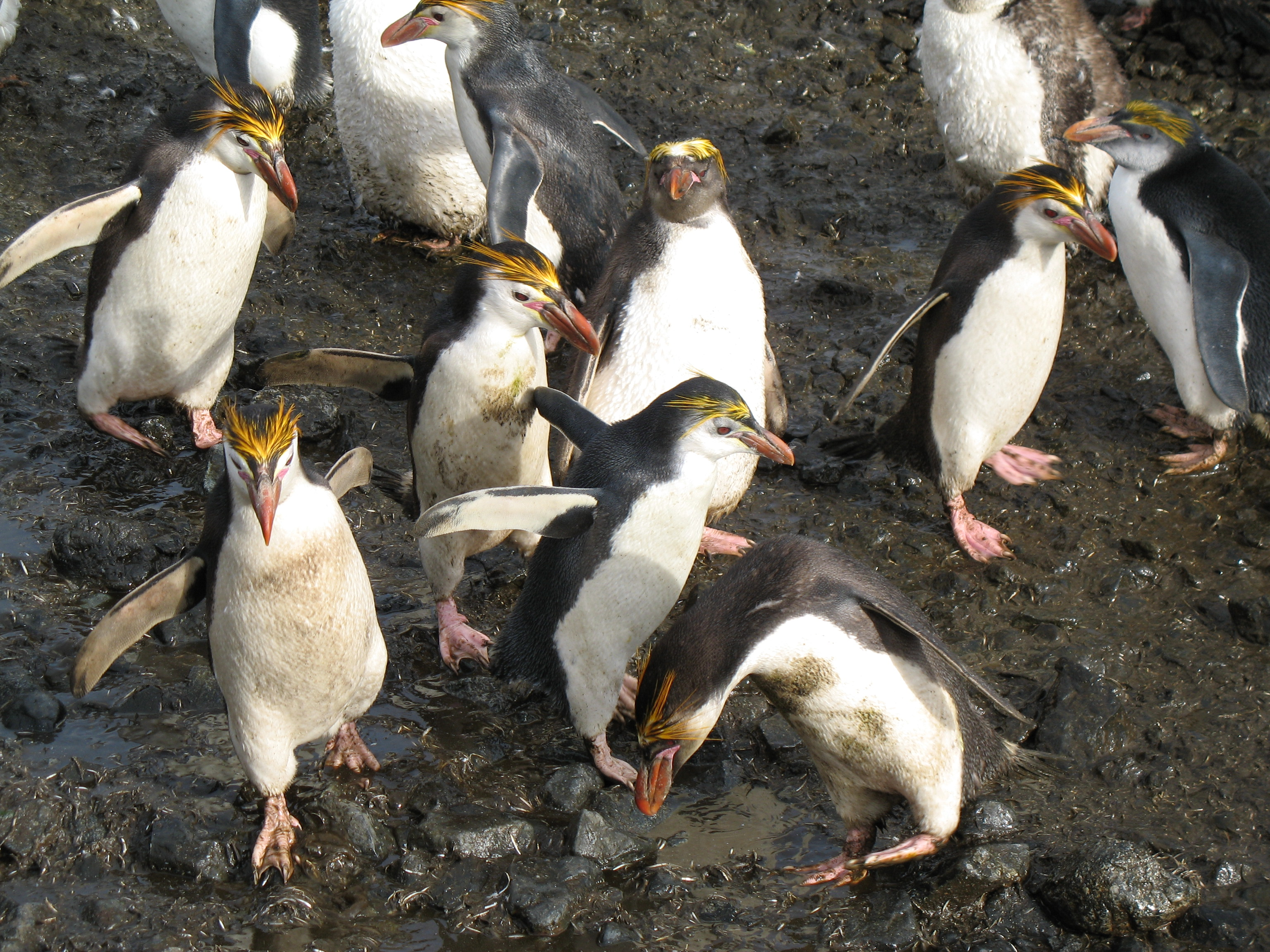 Royal penguins on Macquarie Island